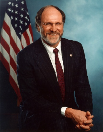 Jon Corzine, Governor and former Senator from New Jersey.